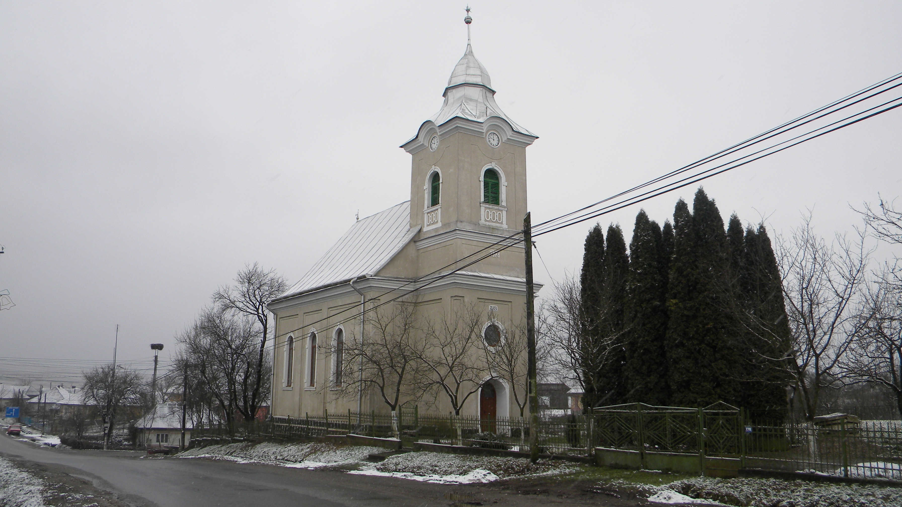 Ariniş / Égerhát / Elrück (Erlenhang) - hungarian reformed church